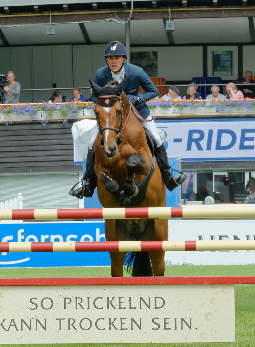 CSIYH* int. Springprüfung nach Strafpunkten und Zeit Internationales Pfingstturnier Wiesbaden 2015 The making of this document was supported by the Community-Budget of Wikimedia Germany.